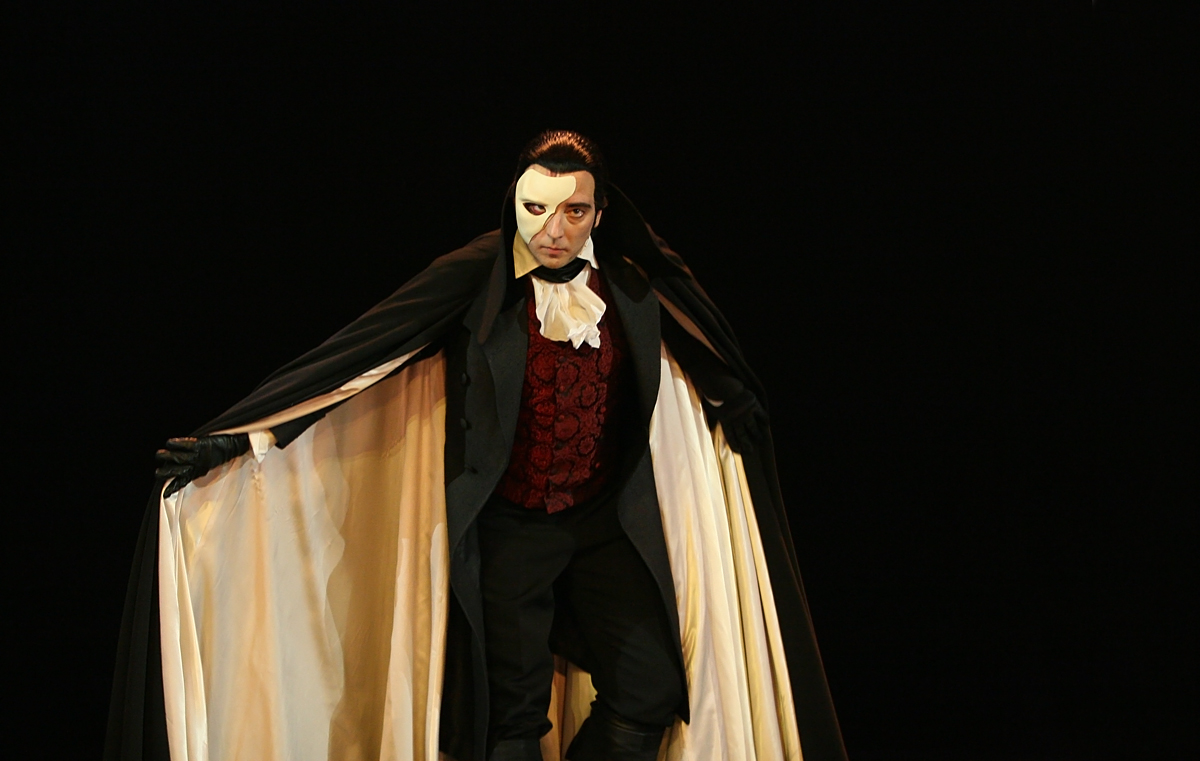 Tomasz Steciuk as Phantom in the musical "The Phantom of the Opera" in Roma Musical Theatre in Warsaw, 30.10.2008.